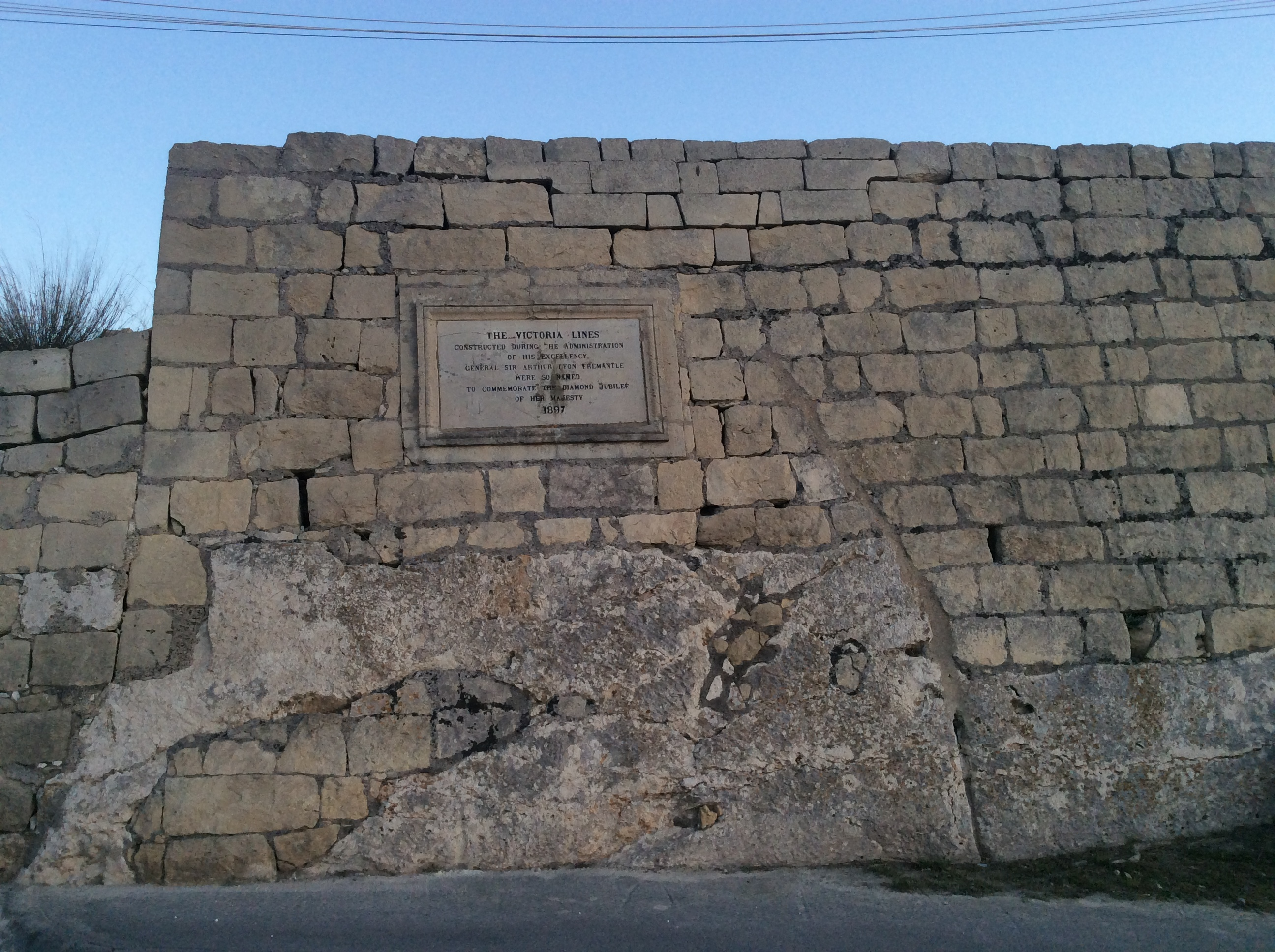 Victoria Lines Plaque near Gnien l-Gharusa tal-Mosta